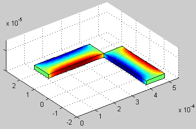 Results of modeling in COMSOL Multiphysics, module Electromagnetics